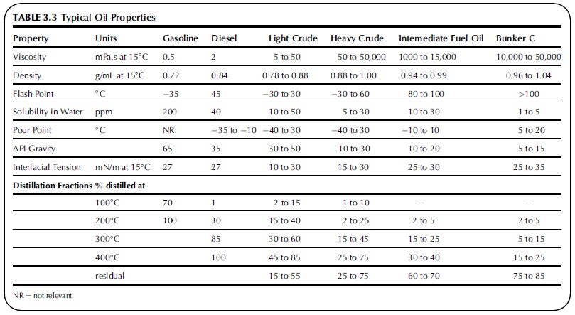 Table of properties about different types of oil